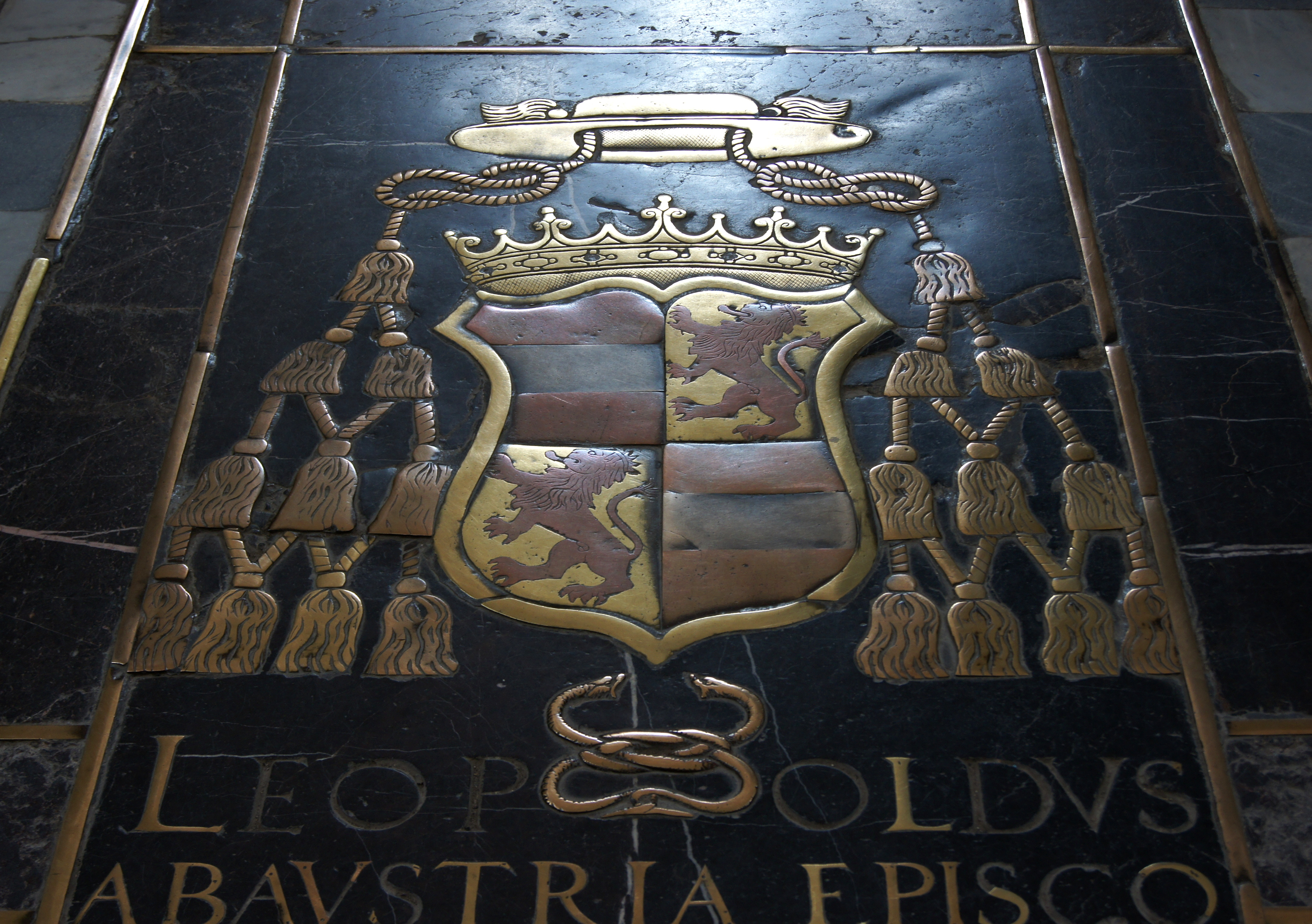 CoA, on his gravestone, of Leopold of Austria, bishop of Cordoba, Mosque-Cathedral of Cordoba, Spain. He was an illegitimate son of Emperor Maximilian, half brother of king Philipp I of Castile, and Half-uncle of Emperor Charles V. He died in 1557.